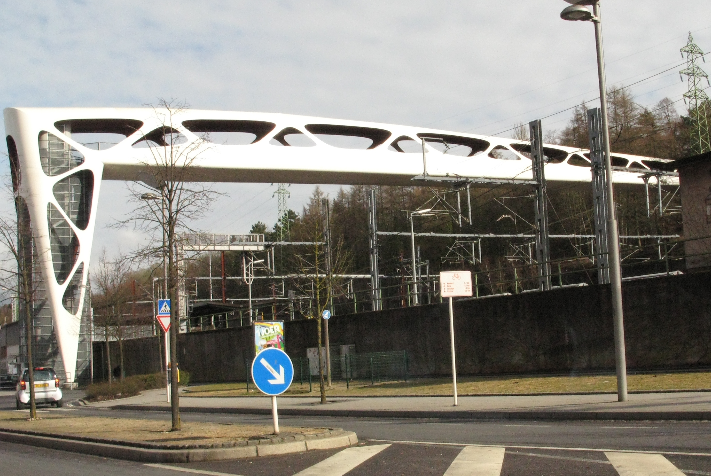 Footbridge to Galgenberg in Esch-sur-Alzette (Luxembourg)